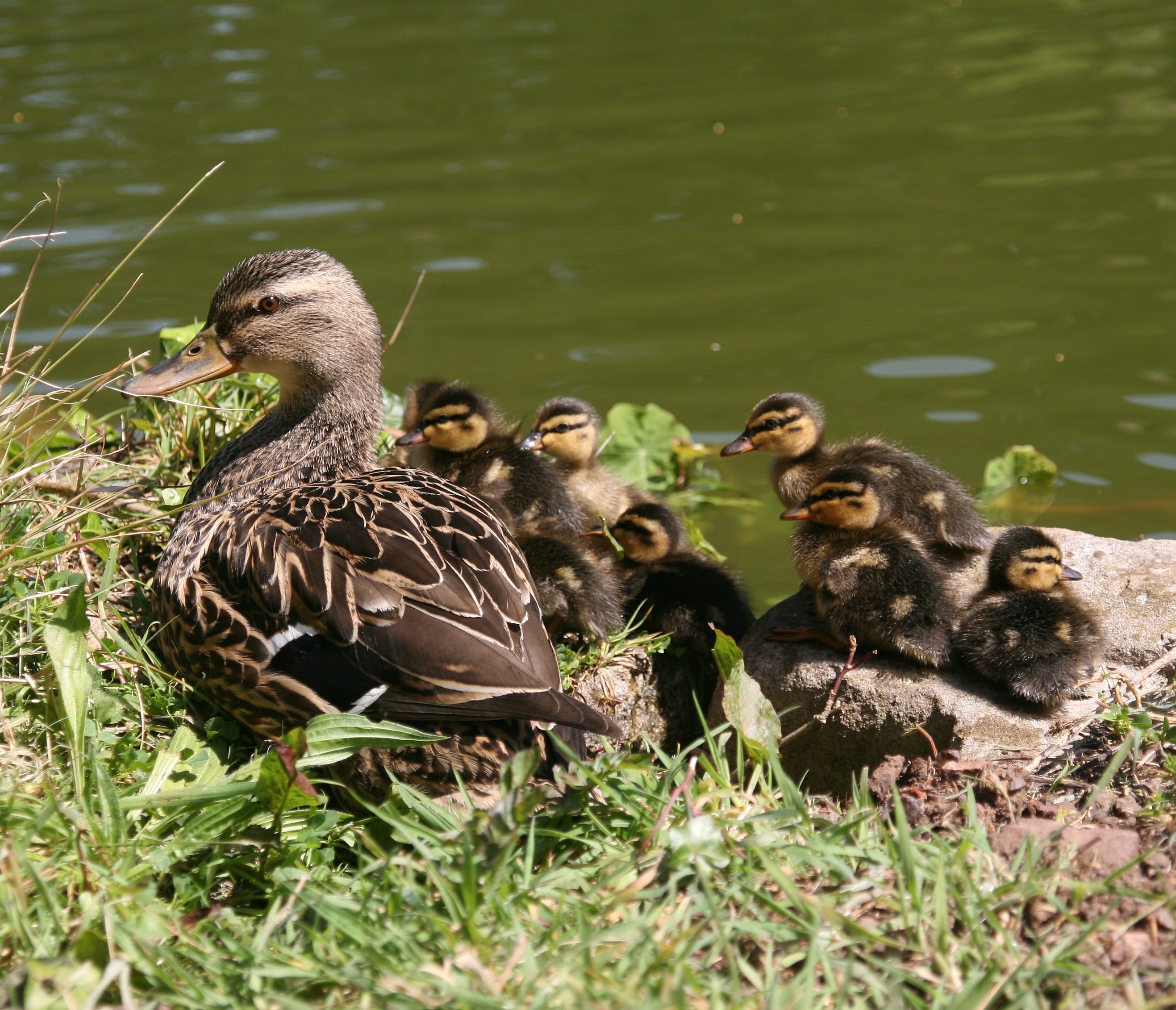 Female Mallard with ducklings